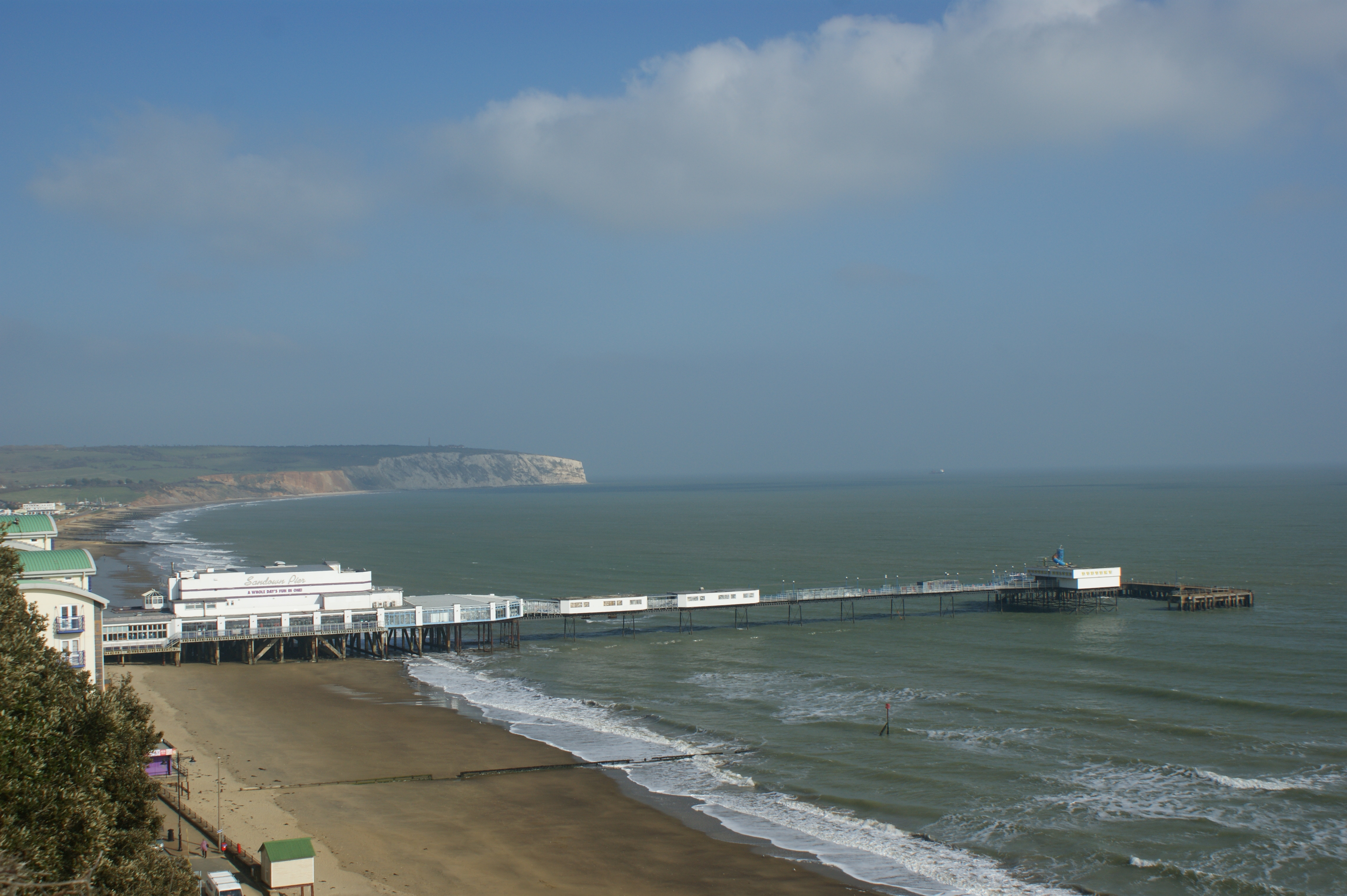 Sandown Pier, Sandown, Isle of Wight, seen from the cliff tops of the Isle of Wight Coastal footpath.